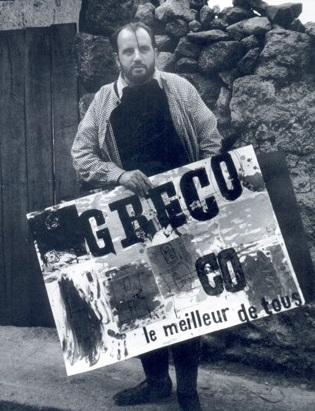 Alberto Greco- artista plástico